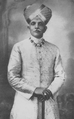 Photograph of a Maharaja of Mysore. Source